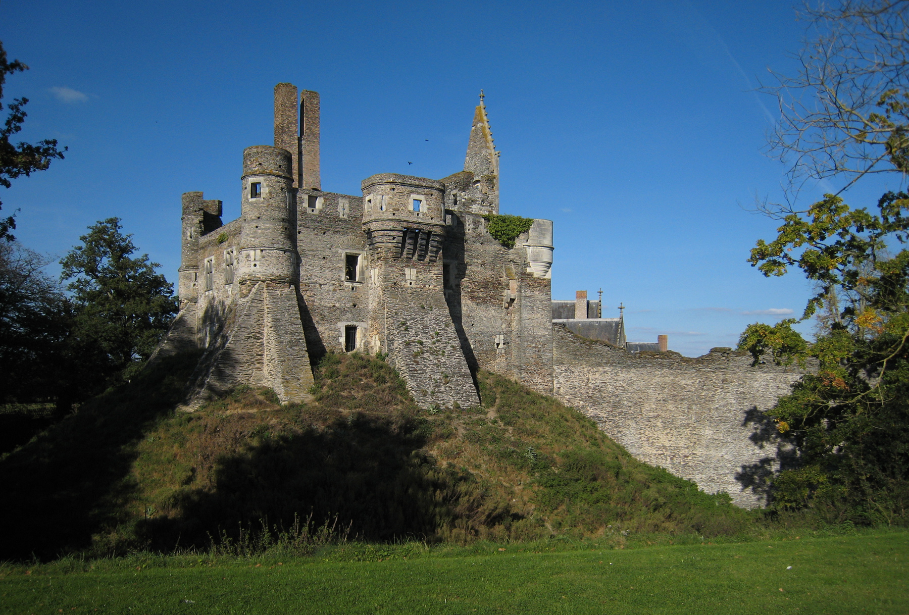 Castle Le Plessis-Macé, located in the village of Le Pessis-Macé near the town of Angers in the county of Maine-et-Loire/France, Donjon of the castle outside the stronghold's wall